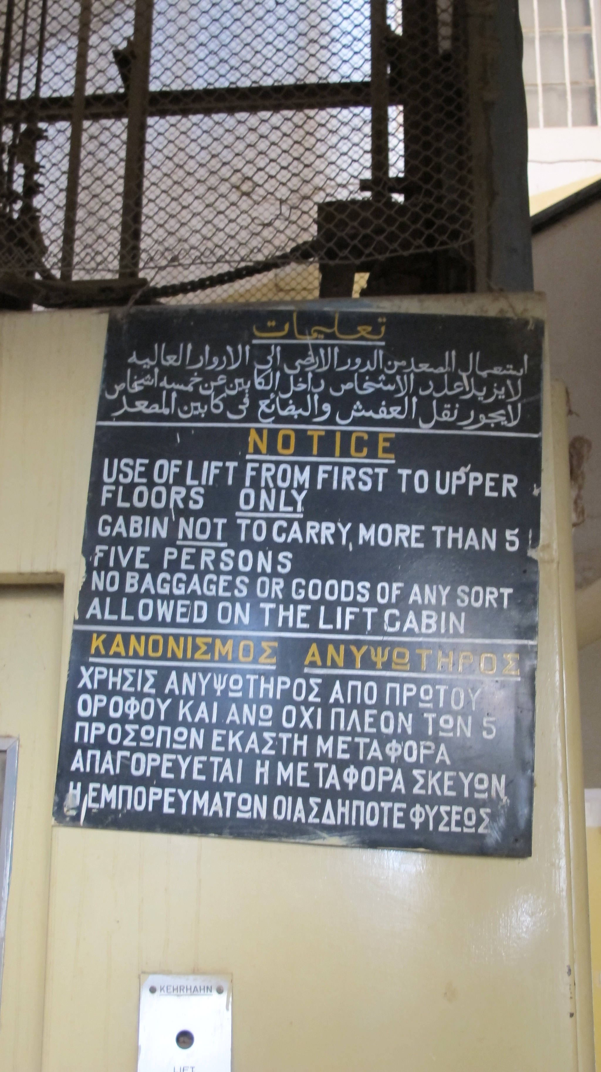 A trilingual sign in Arabic, English, and Greek, in the staircase of the Slavos Building (built in the 1950s by a Greek entrepreneur) in Gamhouria Street, downtown Khartoum, Sudan.